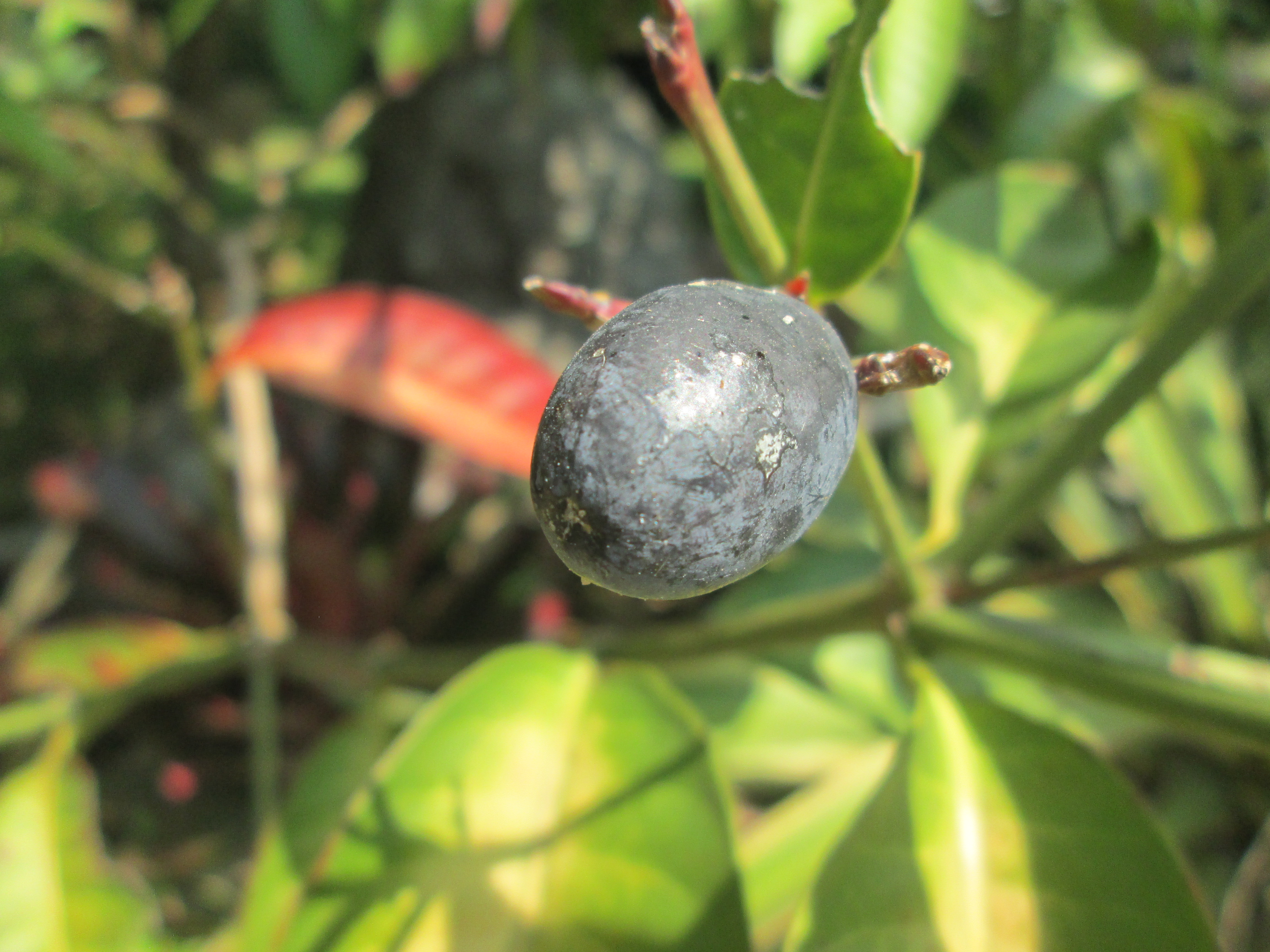 Kopsia arborea Blume fruit in Taman Kuning Indonesia